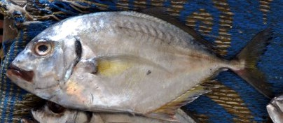 Taken off Sri Lanka by trawl